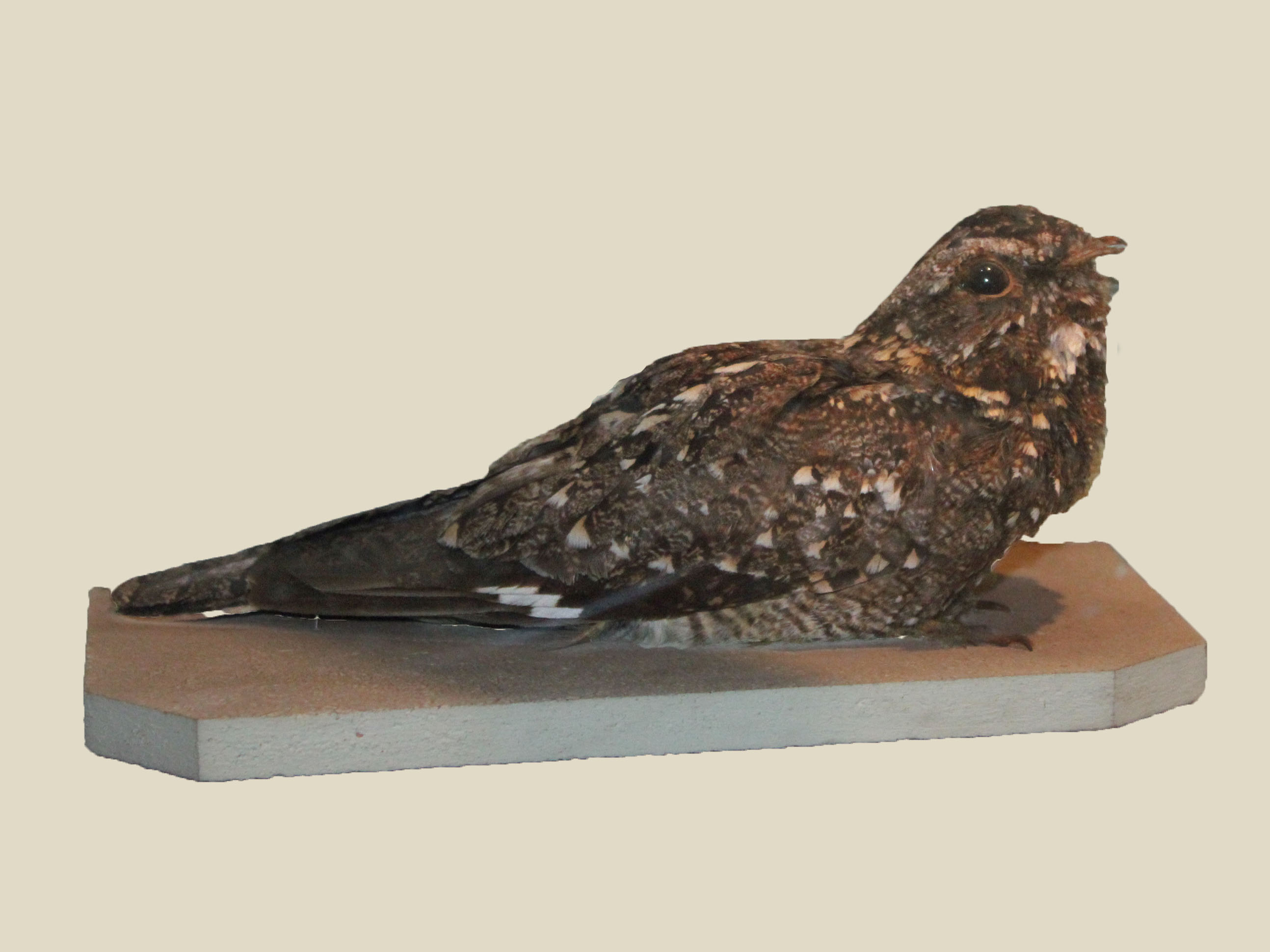 Sombre Nightjar (Caprimulgus fraenatus). Photograph of a specimen at Nairobi National Museum in Nairobi, Kenya.